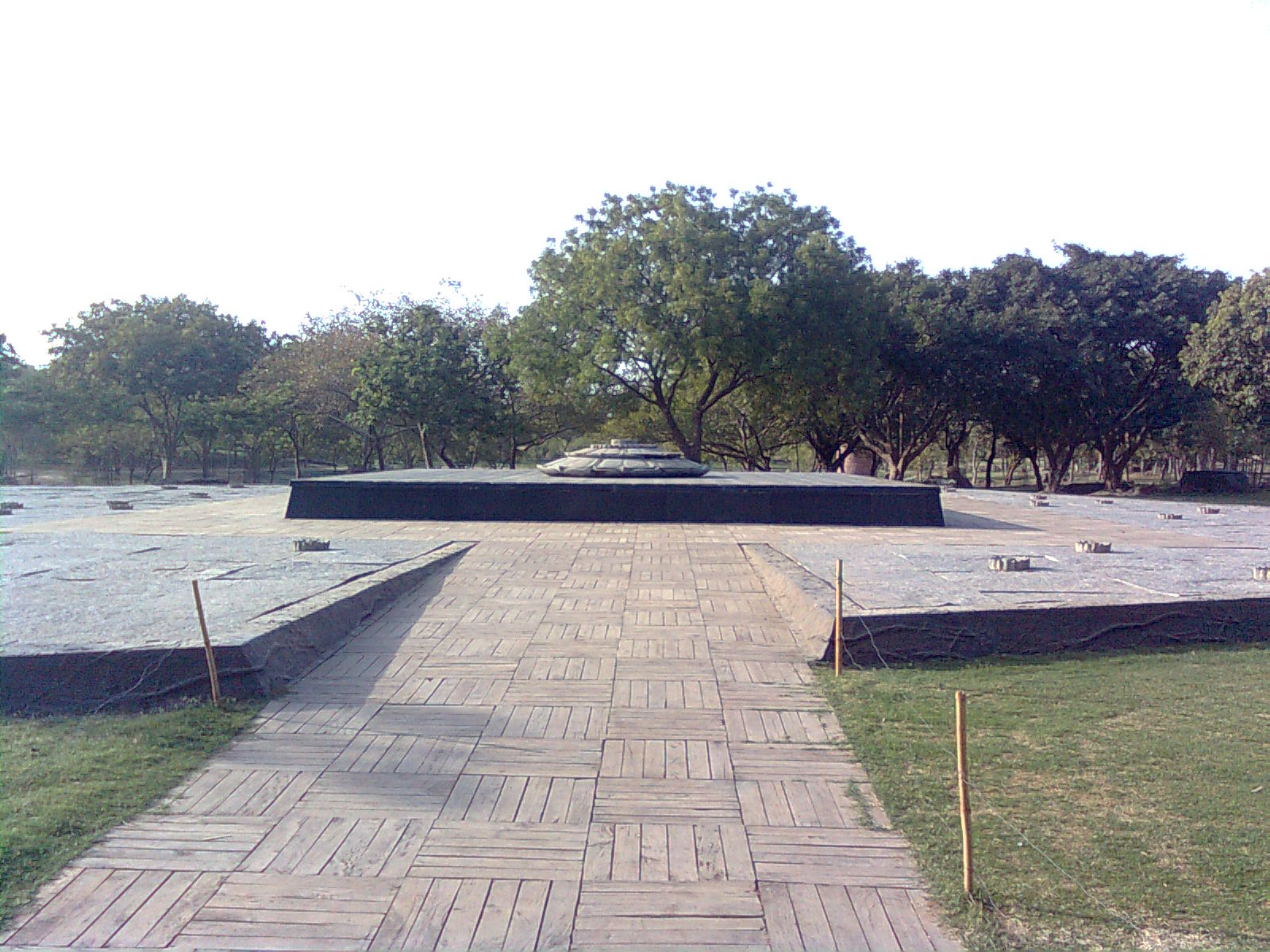 Rajiv Gandhi Memorial Delhi